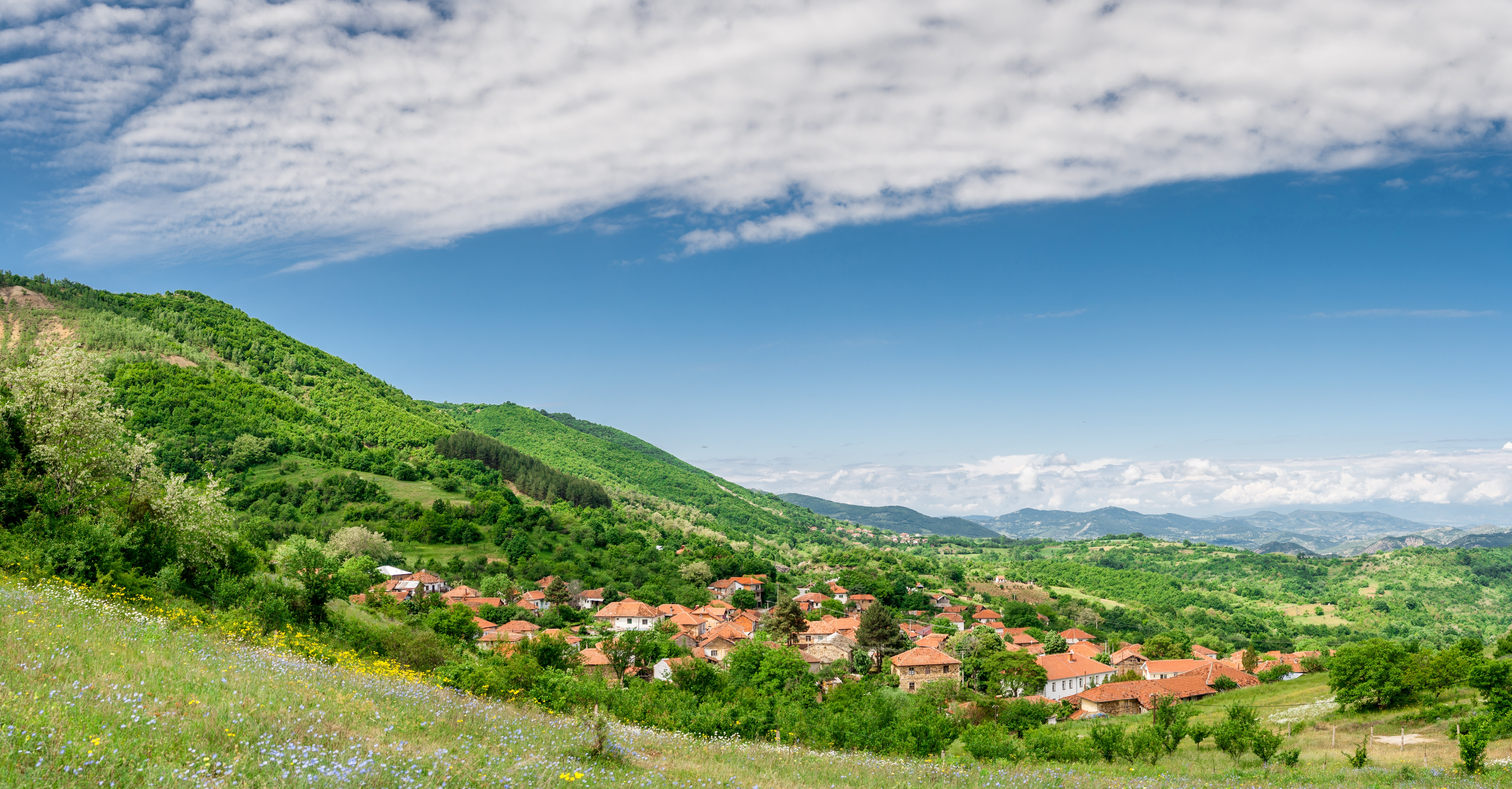 Panoramic view of the village of Šlegovo